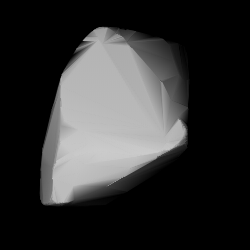 3D convex shape model of 1902 Shaposhnikov, computed using light curve inversion techniques. J. Hanuš, J. Ďurech, M. Brož, B. D. Warner (June 2011). "A study of asteroid pole-latitude distribution based on an extended set of shape models derived by the lightcurve inversion method". Astronomy and Astrophysics 530: A134. ISSN 0004-6361. arXiv